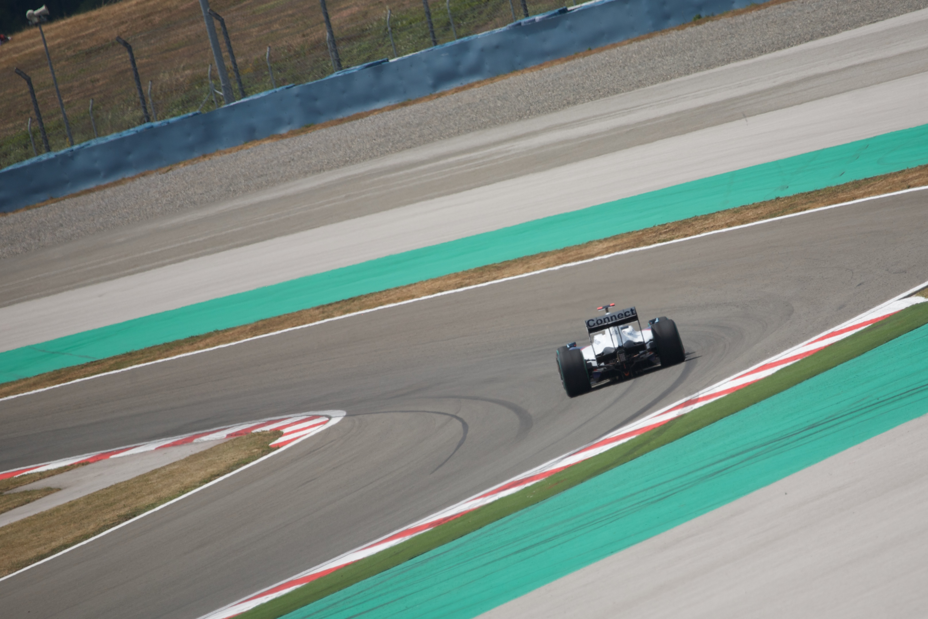 Robert Kubica driving for BMW Sauber at the 2009 Turkish Grand Prix.